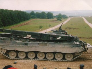 wrecker 3 "Büffel" of the german Bundeswehr